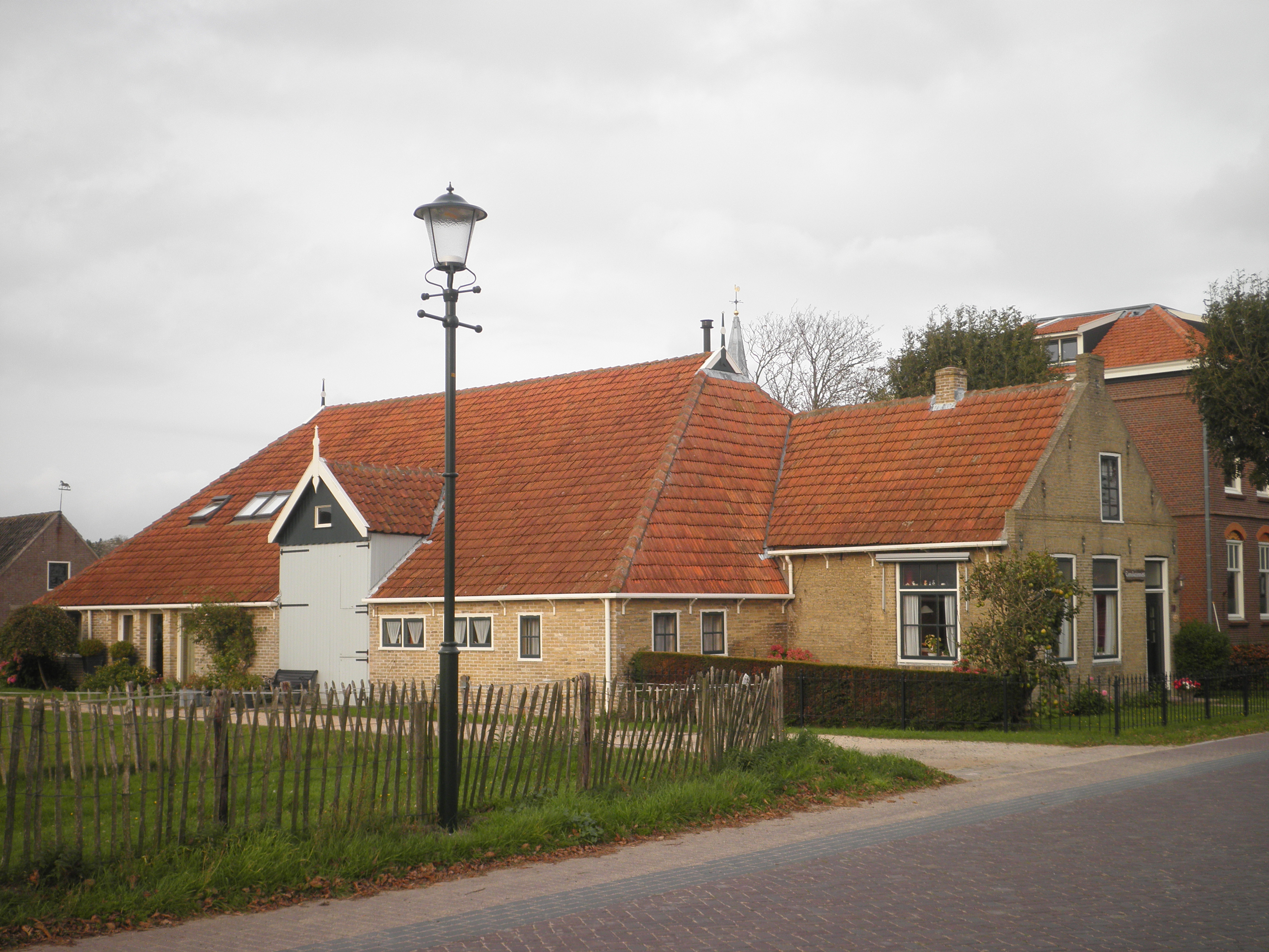 A farm with a 19th century farmhouse showing a facade with six-paneled windows on the ground floor and an eccentric top window in Hoorn on the island of Terschelling in the Netherlands. Nationally listed heritage.